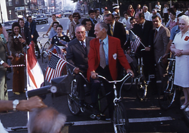 This is an image of Keith Kingbay with Chicago's Mayor, Richard J. Daley, riding a Schwinn tandem bicycle at the opening of Chicago's first bike lane. This photo was taken on Clark St. adjacent to Washington Square Park in Chicago, IL.